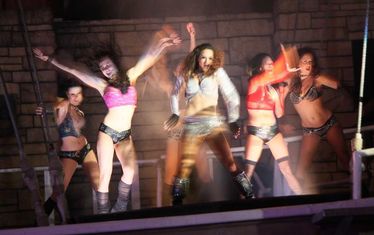 The sirens in full flow.